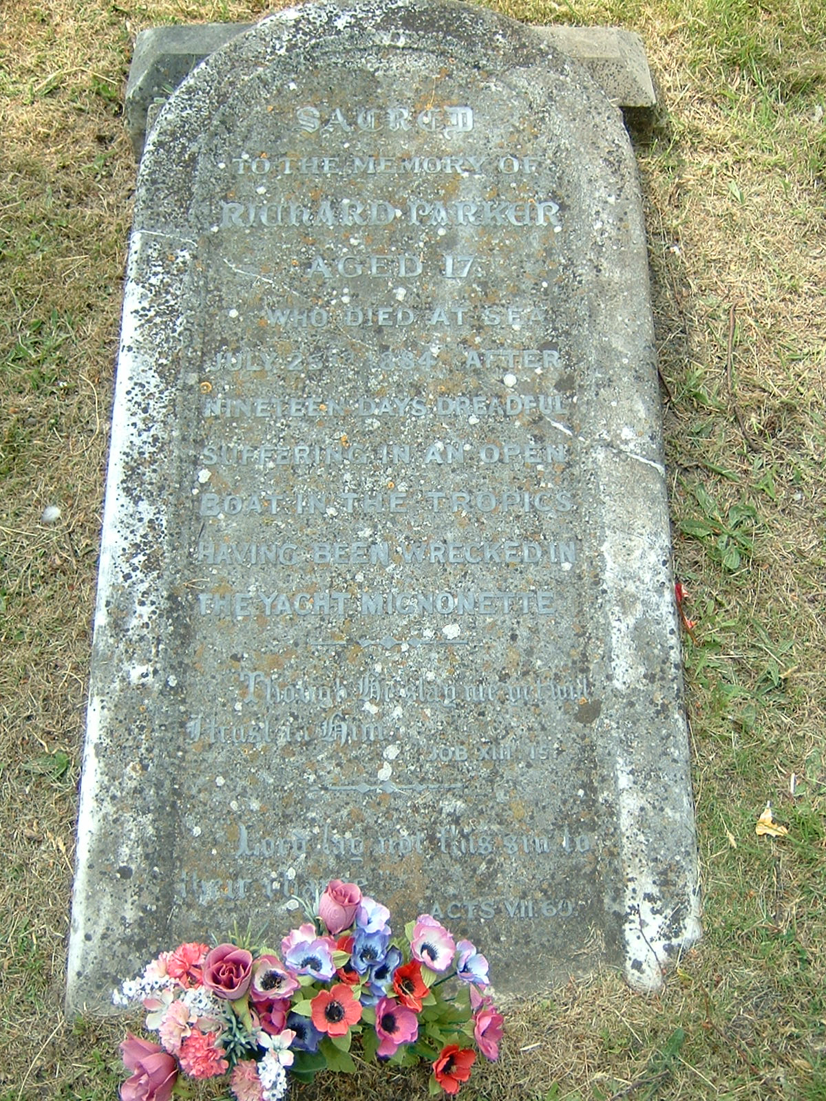 Richard Parkers Tombstone at Jesus Chapel, Peartree Green, Southampton Text of the inscription The inscription on the tombstone reads as follows; SACRED TO THE MEMORY OF RICHARD PARKER AGED 17 WHO DIED AT SEA JULY 25th 1884 AFTER NINETEEN DAYS DREADFUL SUFFERING IN AN OPEN BOAT IN THE TROPICS HAVING BEEN WRECKED IN THE YACHT MIGNONETTE Though he slay me yet will I trust in him. JOB XIII.15 Lord lay not this sin to their charge. ACTS VII.60